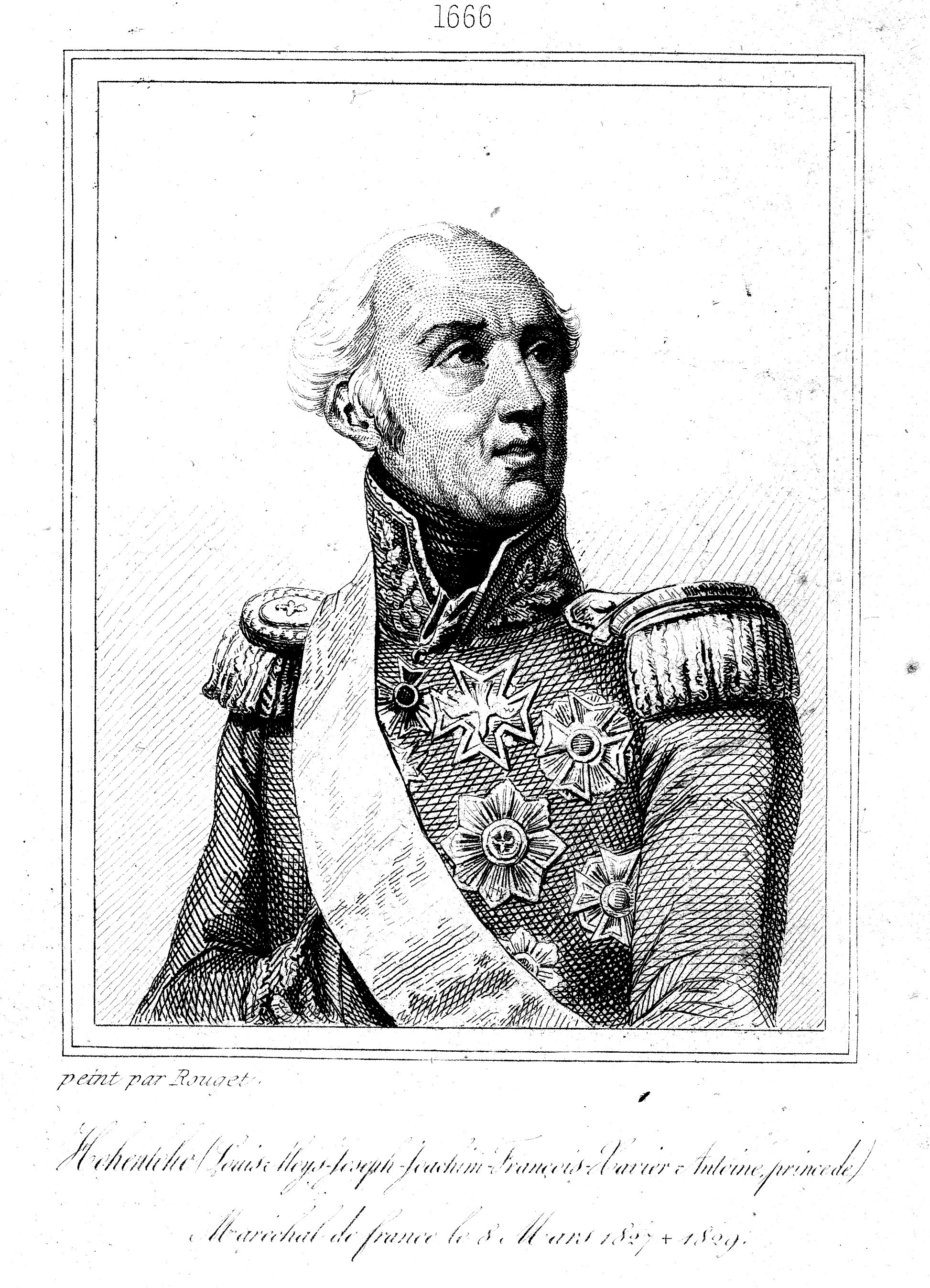 Louis Aloysius, Prince of Hohenlohe-Bartenstein, 1830s engraving